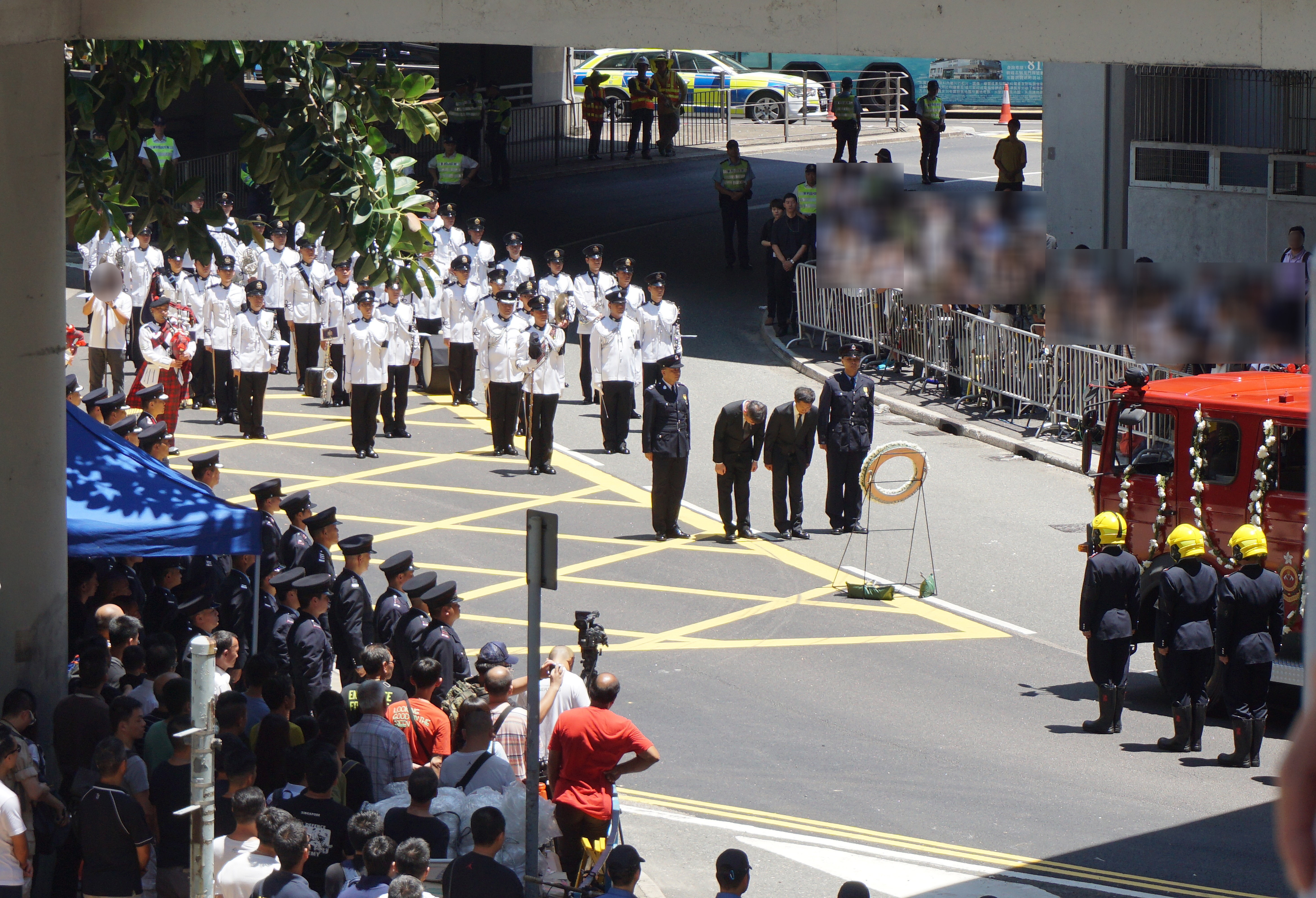 Fire Station in Kwun Tong, Hong Kong.